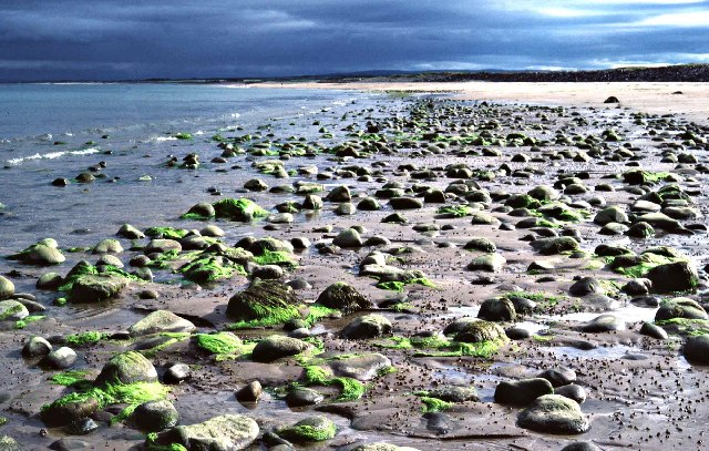 Golspie Beach. Golspie beach showing the rocky area near the Golf Course.